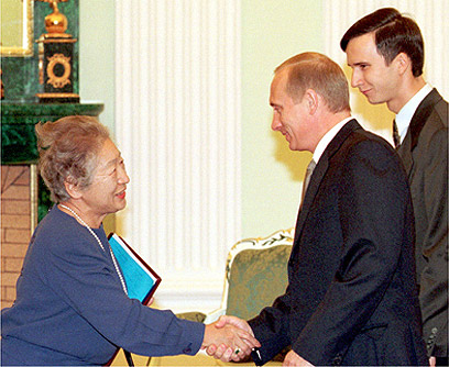 THE KREMLIN, MOSCOW. With UN High Commissioner for Refugees Sadako Ogata.